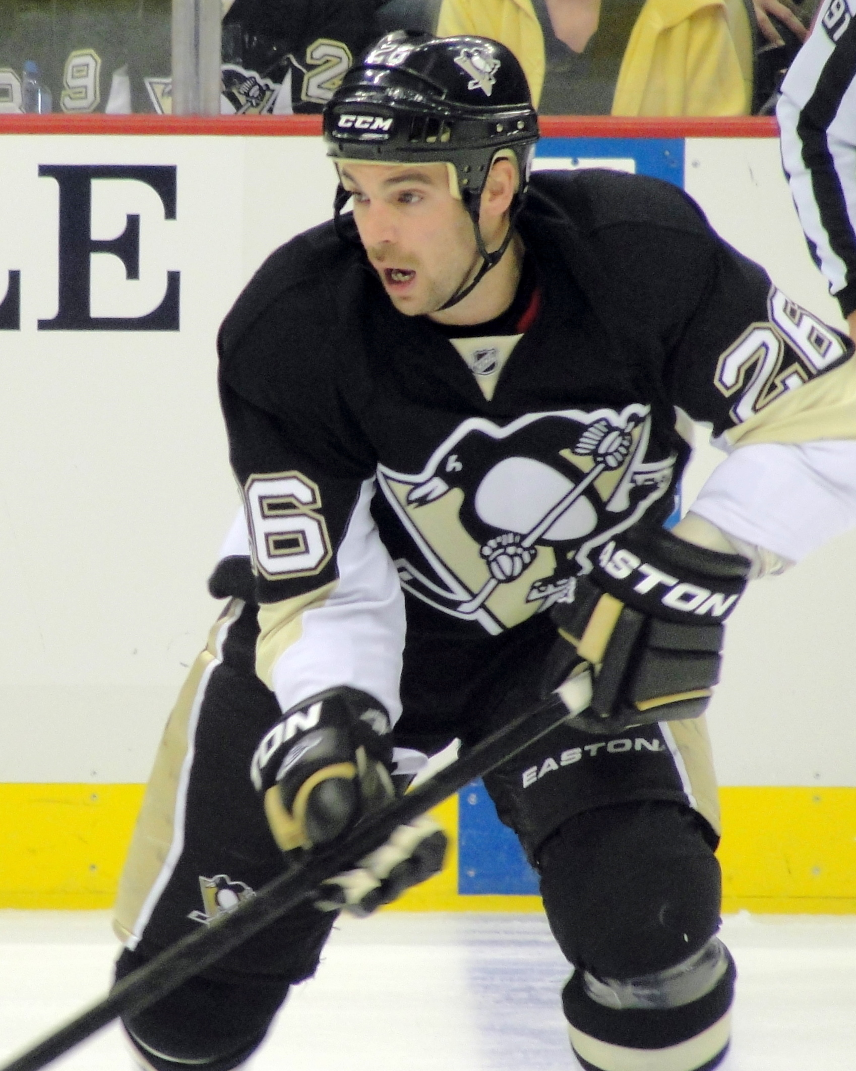 Steve Sullivan of the Pittsburgh Penguins during a game against the Dallas Stars November 11, 2011 at Consol Energy Center in Pittsburgh, PA.